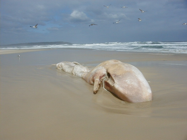 A juvenile Sperm whale washed up on Hawston beach, South Africa. The kranium with most of the teeth intact in the lower jawbone, is displayed in the entrance to the Whale House